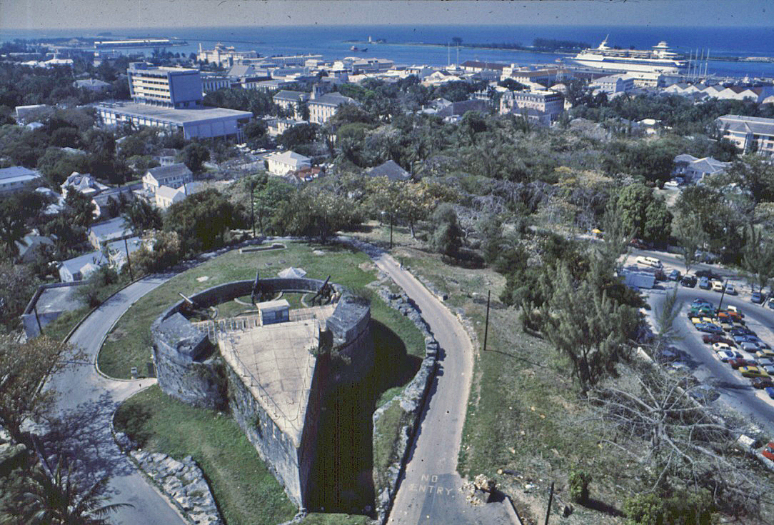 Photo overlooking Ft. Fincastle and Nassau, Bahamas as it appeared in 1984.